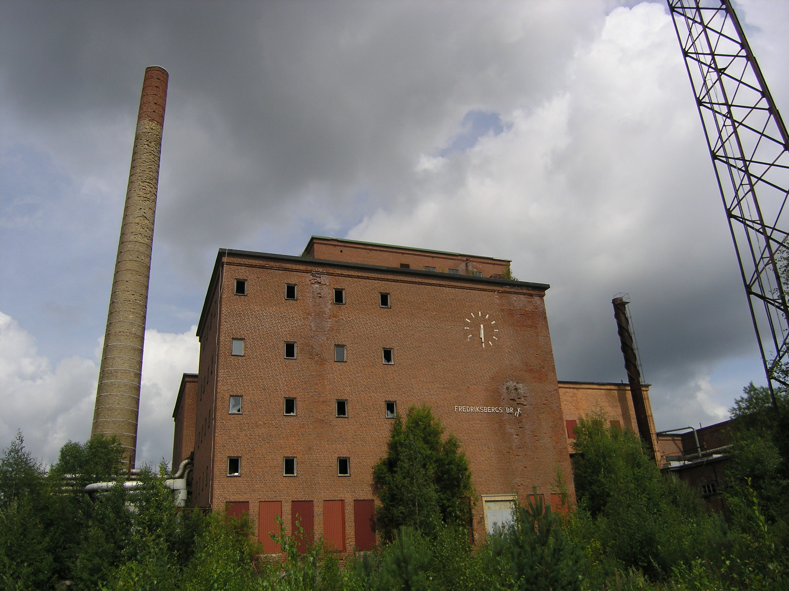 Abandoned industries (paper industry) in Fredriksberg, Sweden, year 2007.